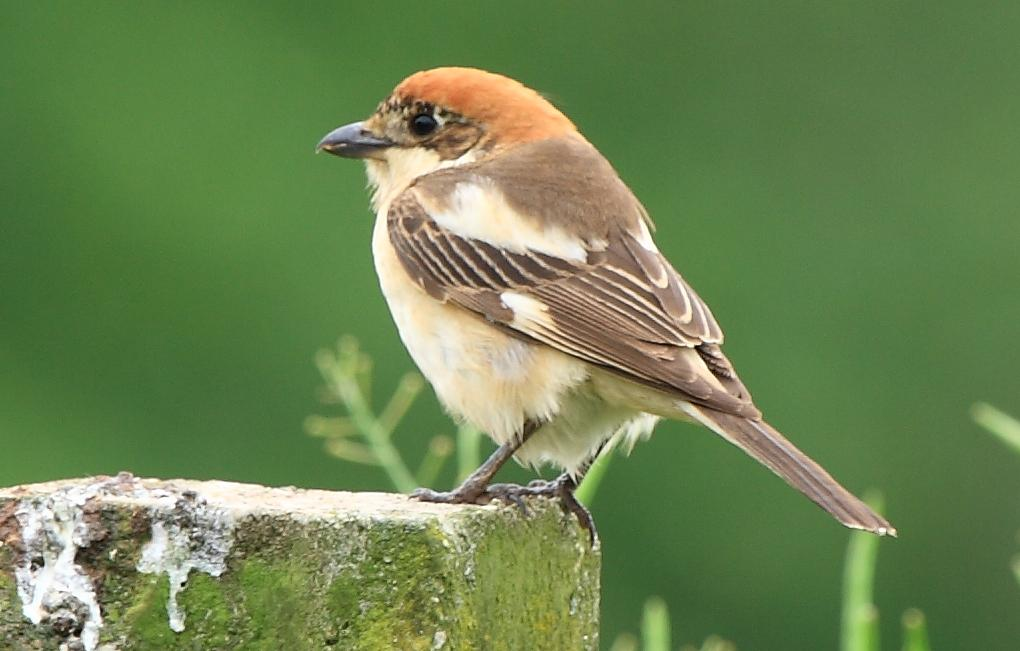 Woodchat-Shrike (Lanius senator), 20.4. 2008 - Galicia - Spain